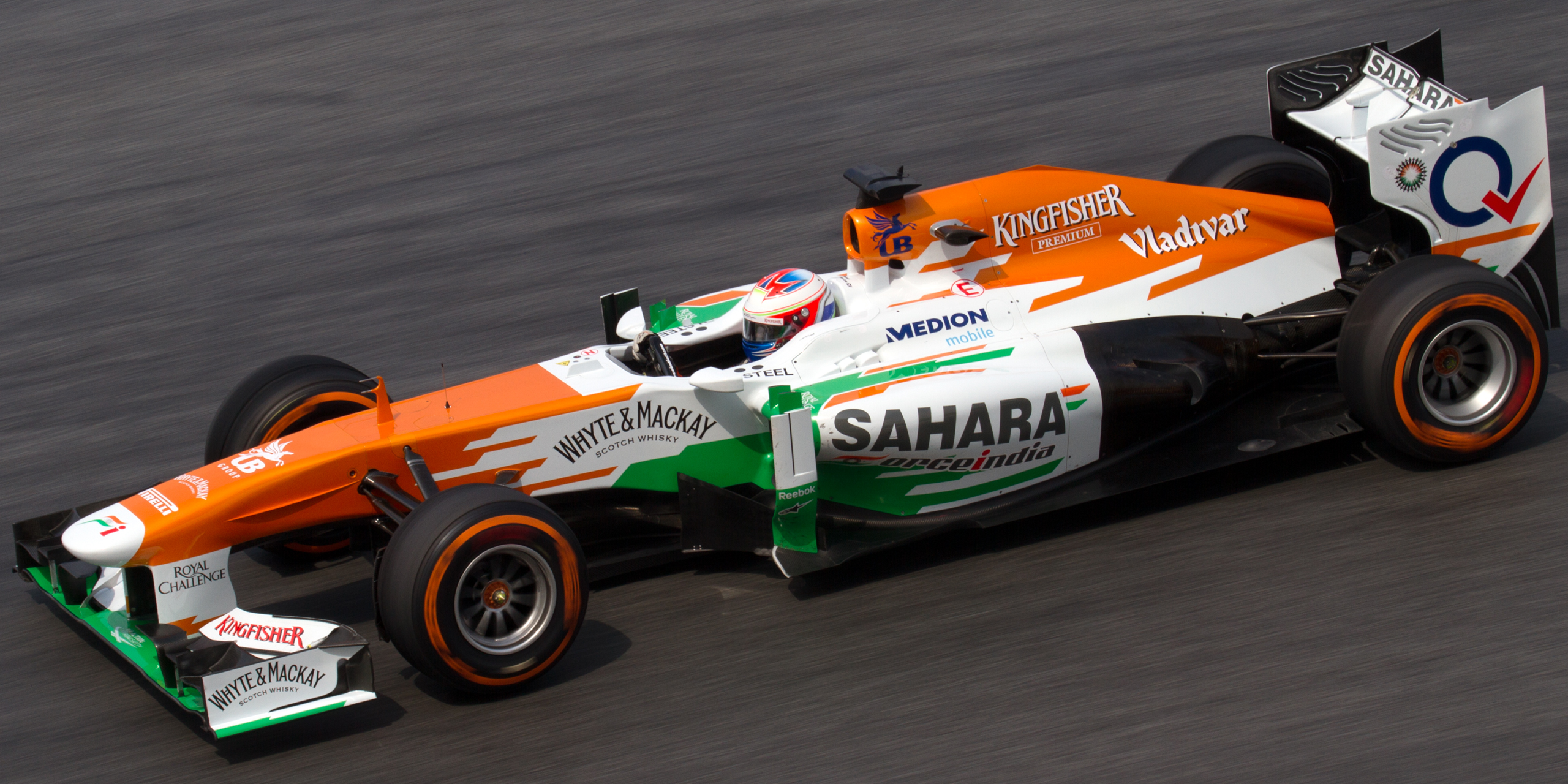 Formula One 2013 Rd.2 Malaysian GP: Paul di Resta (Force India) during the second practice session on Friday.